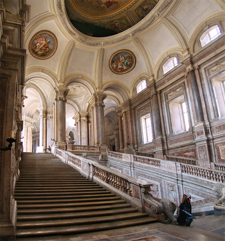 The Honour Grand Staircase, Royal Palace, Caserta, Campania, Italy.